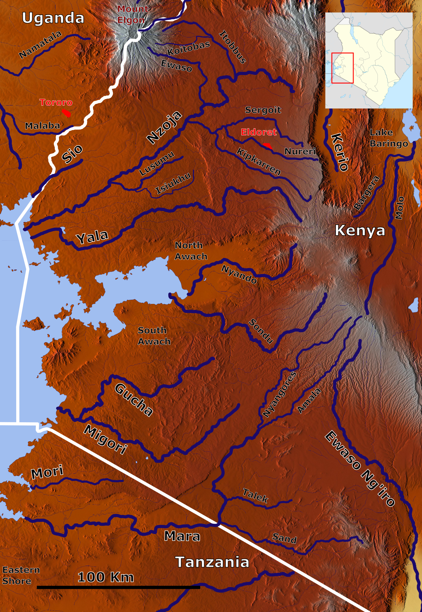 Lake Victoria Basin in Kenia OSM